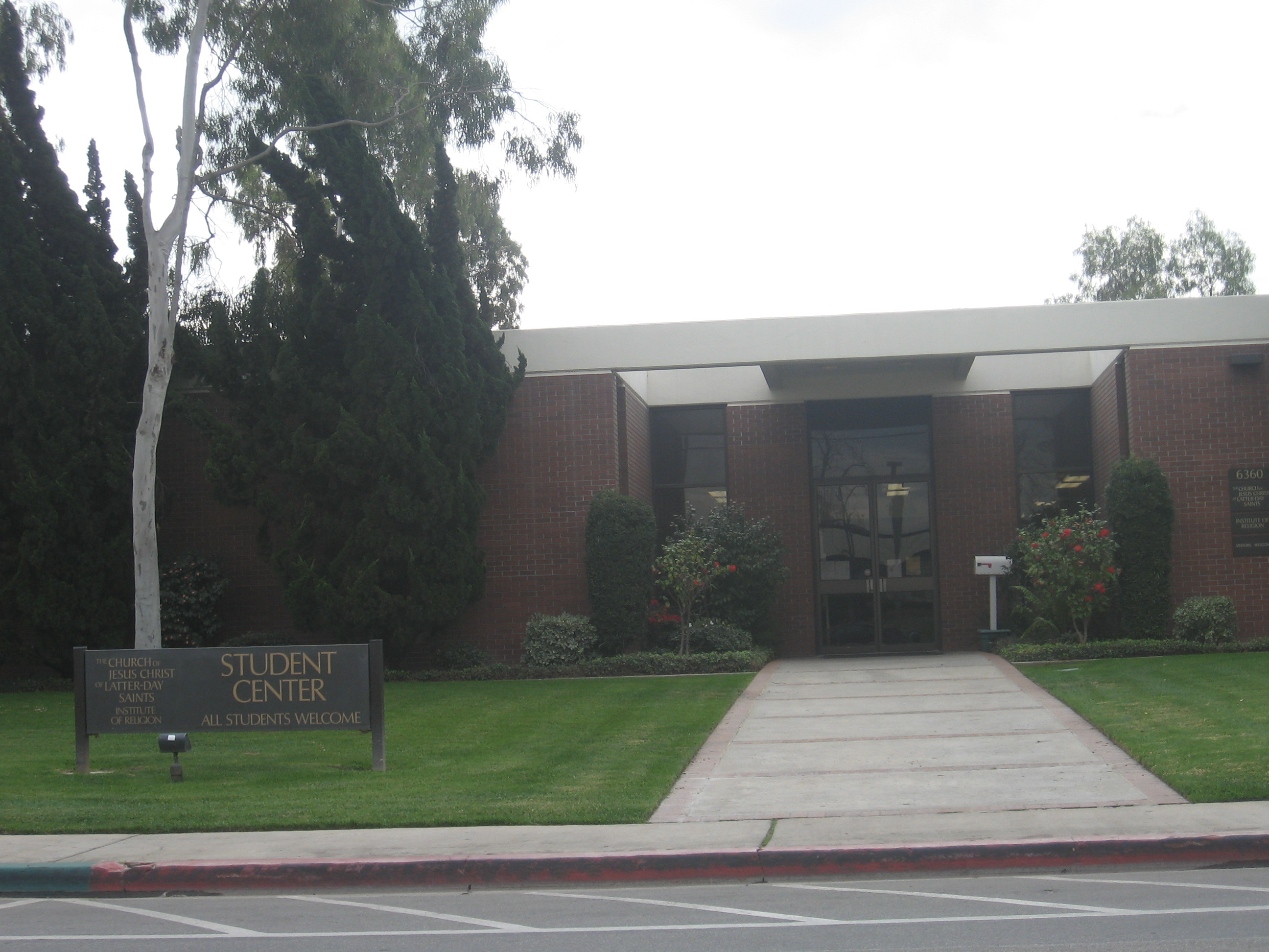 A Institute of Religion building for The Church of Jesus Christ of Latter-day Saints at California State University, Long Beach.